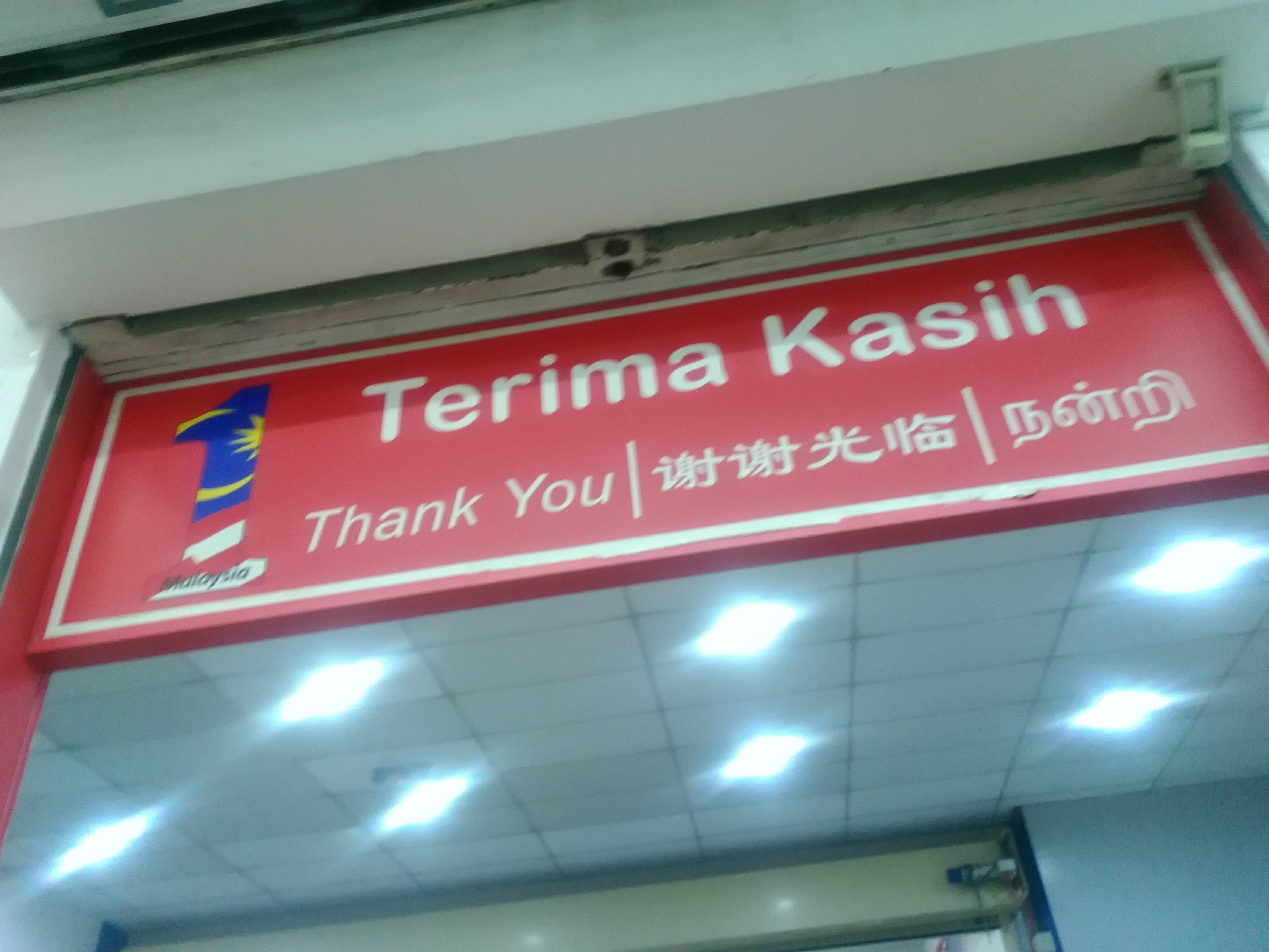 Thank you (for shopping here) sign at a Kelana Jaya LRT Station 1Malaysia Store